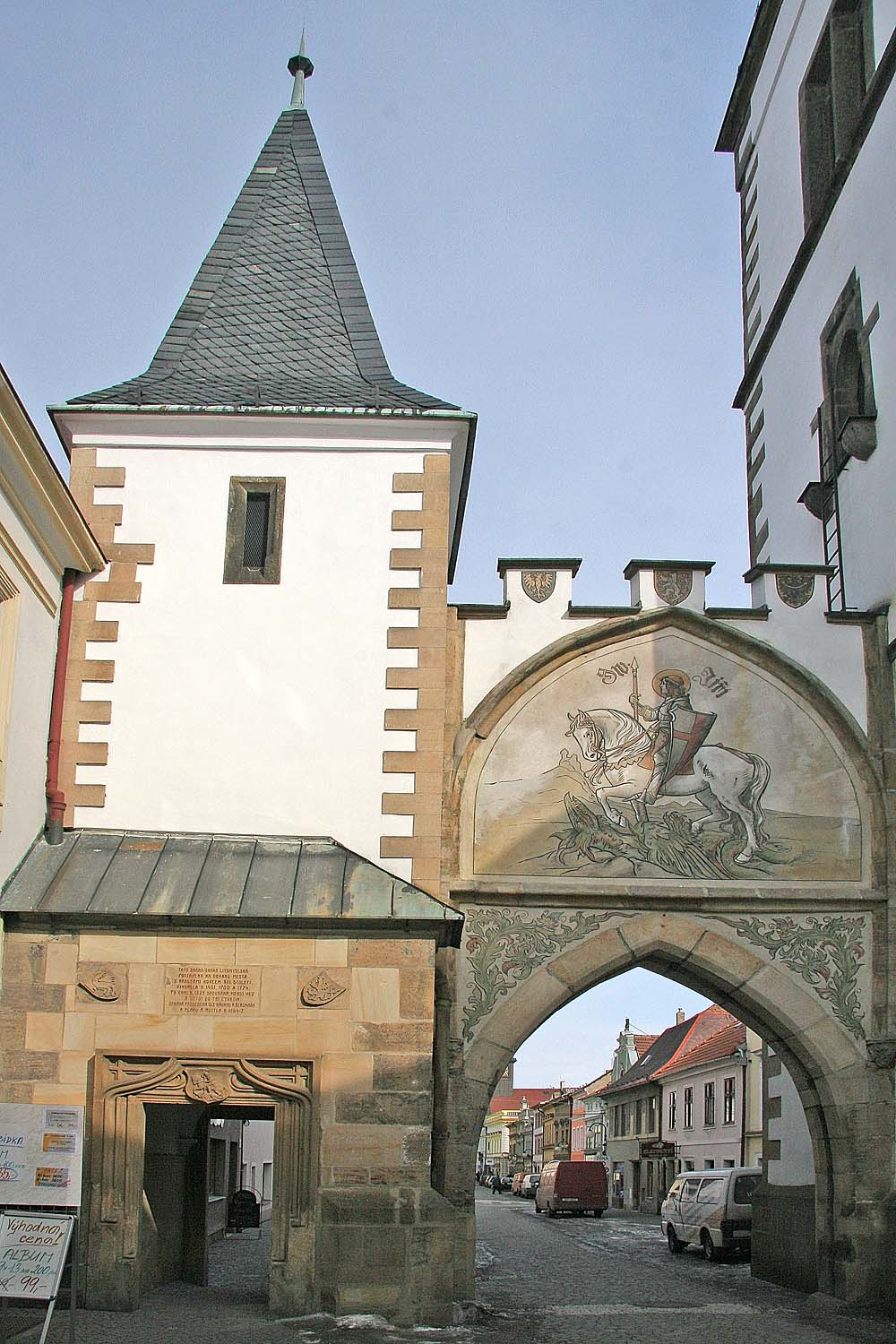 Litomyšl Gate in Vysoké Mýto, Czech Republic autor: Prazak date: 2. 3. 2006